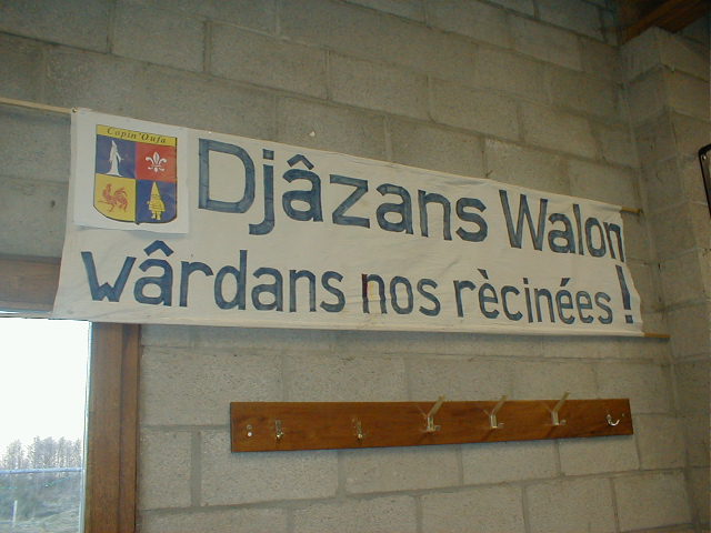 banner saying "let 's speak Walloon, let 's keep our roots" Walon: banire dijhant "djåzans walon, wårdans nos raecinêyes", avou l' essegne del copinreye d' Oufalijhe (a l' idêye da André Lamborelle, el såle di Håre po ene bate di recitaedjes e walon.